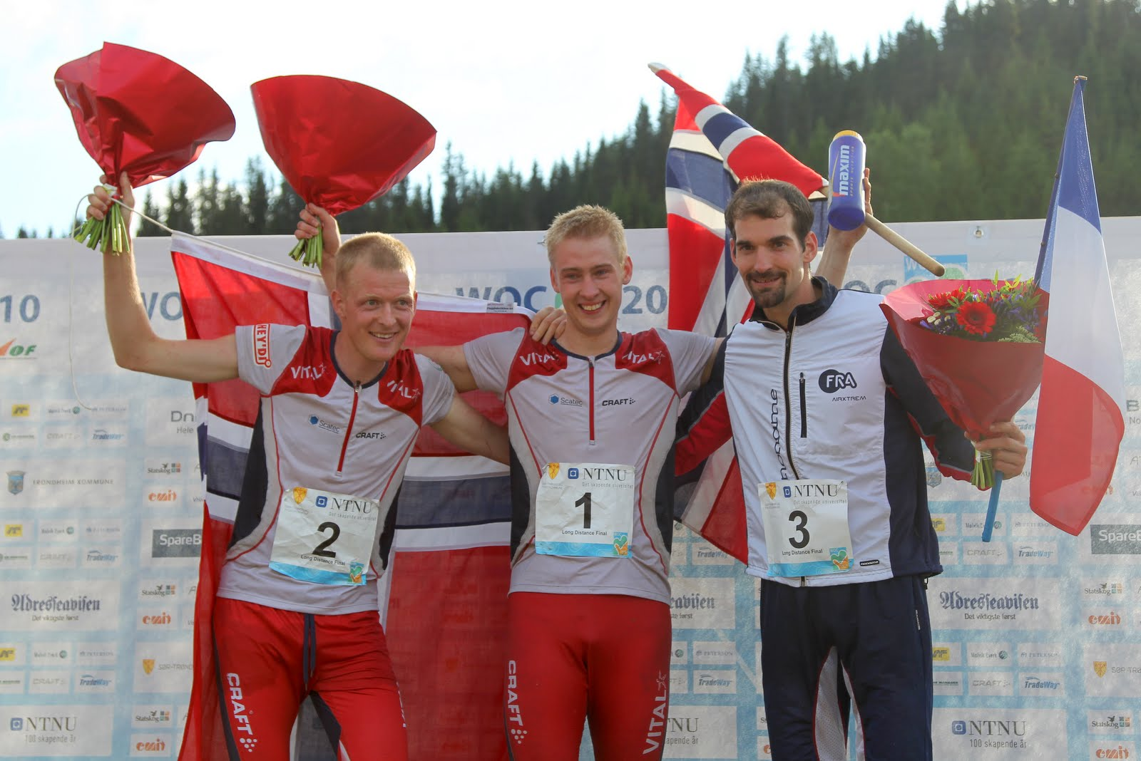 Anders Nordberg, Olav Lundanes and Thierry Gueorgiou at World Orienteering Championships 2010 in Trondheim, Norway